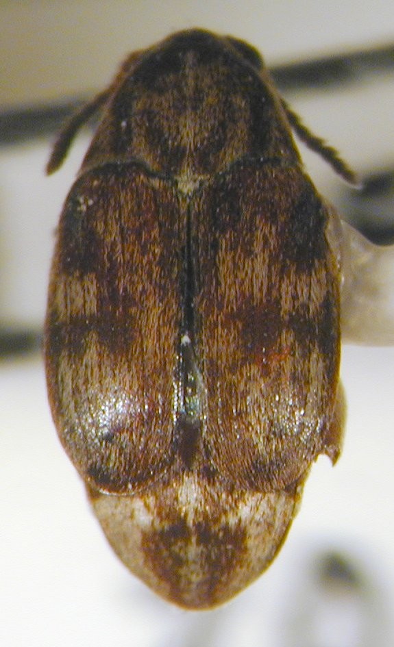 Algarobius bottimeri (Bruchidae) from Hawai'i.